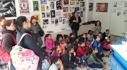 Time's Up helped begin a new history museum called The Museum of Reclaimed Urban Space, where we can further document our grassroots success stories and educate the future generation on the importance of the environment and urban design.